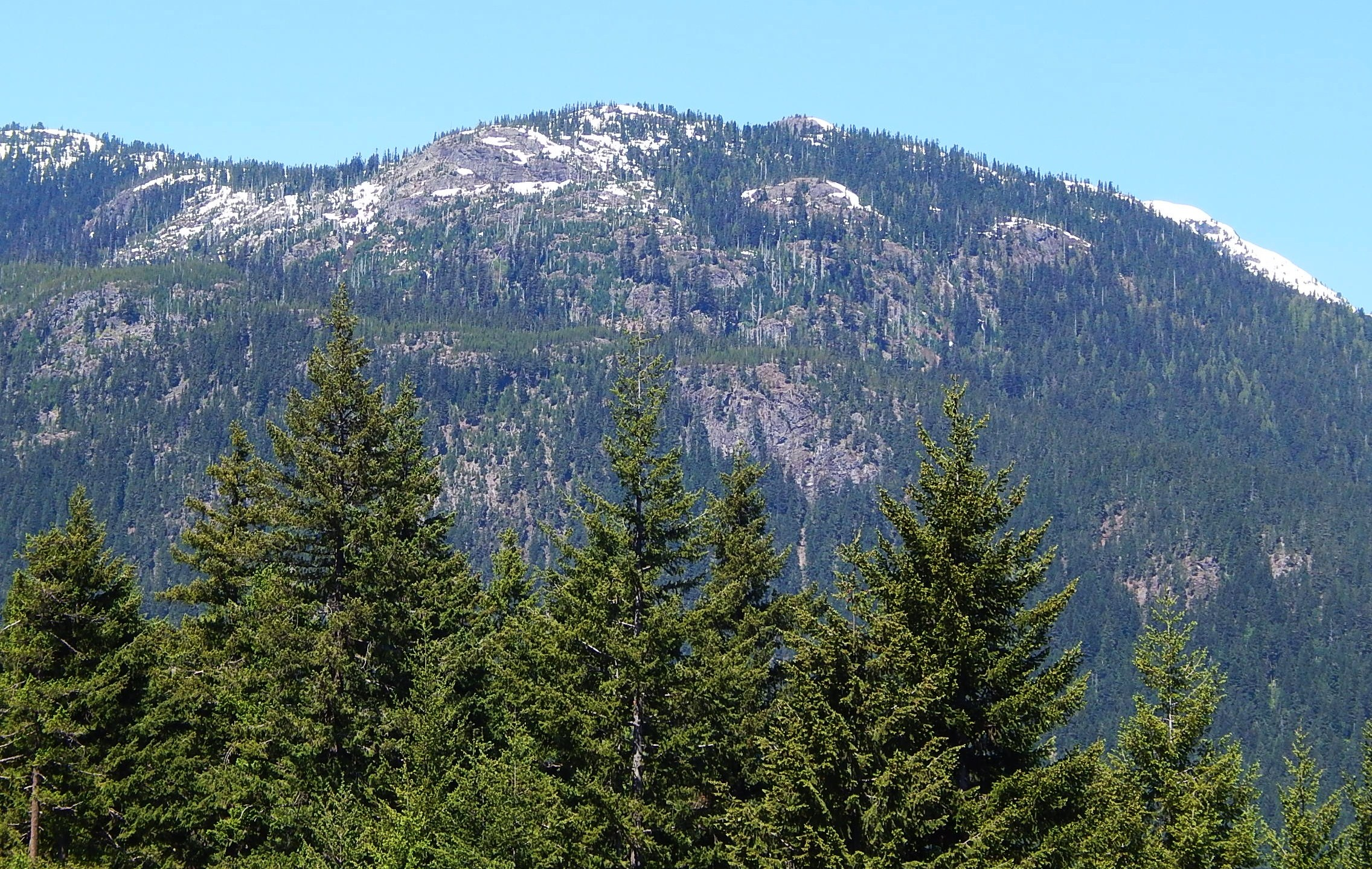 Pierce Mountain 4973' in North Cascades National Park seen from Highway 20